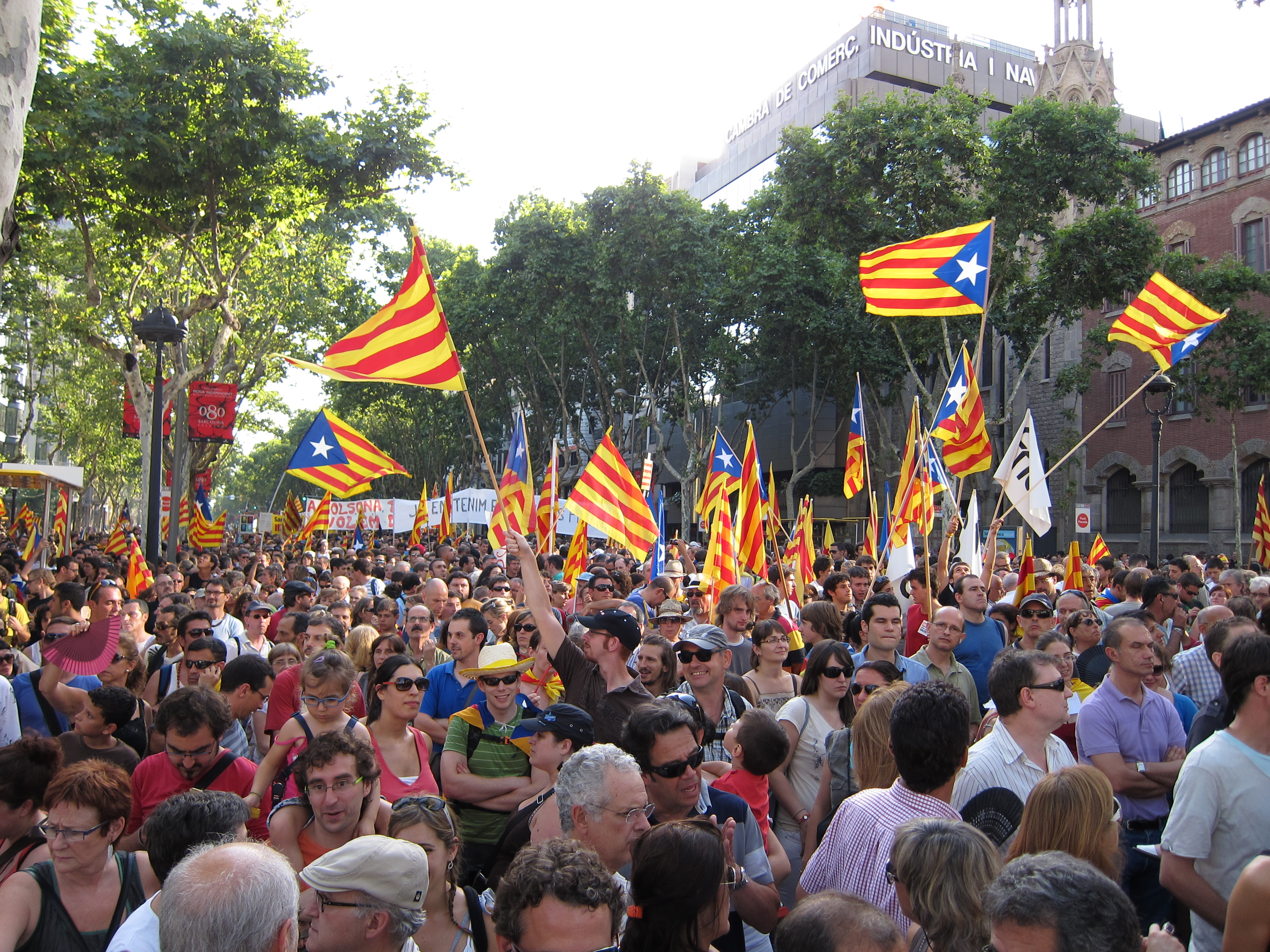 Demonstration "Som una nació. Nosaltres decidim"